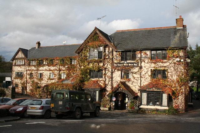 Exford: The Exmoor White Horse Inn By the bridge over the river Exe on the Simonsbath – Wheddon Cross road. An inn with 26 bedrooms, so perhaps better classified as an hotel